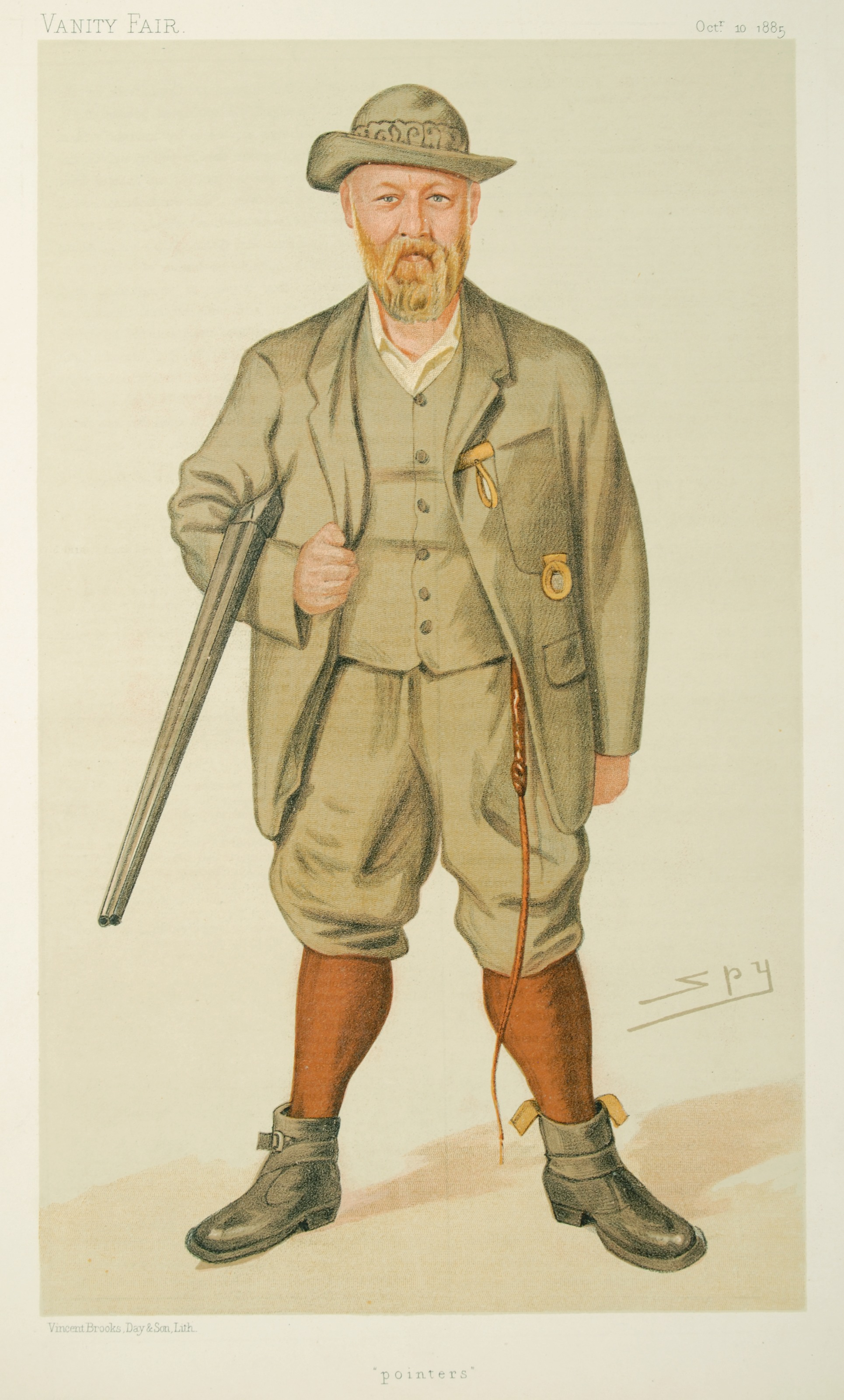 Men of the Day No.342: Caricature of Mr Richard John Lloyd Price Of Rhiwlas. Caption reads: "pointers"